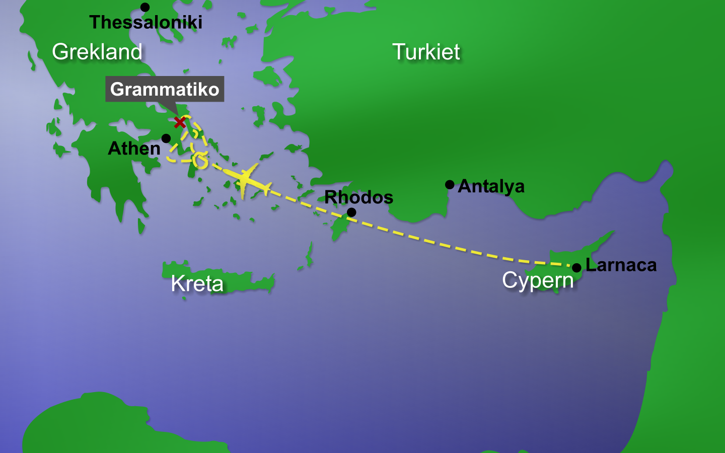 Map of Helios Airways Flight 522. Helios Airwyas Flight 522, crashed on August 14, 2005 near the community of Grammatiko in Greece. The map shows, how the flight proceeded. First, the autopilot controled the airplane in the direction of Athens airport. Then the airplane flew to the south and flew loops over the Ägais for about three hours. After that, the airplane flew in the direction of Athens airport again, until it crashed nearby Grammatiko.